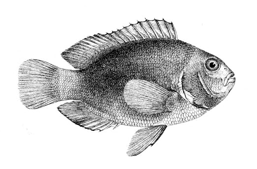 Amphiprion ephippium (Bloch, 1790).